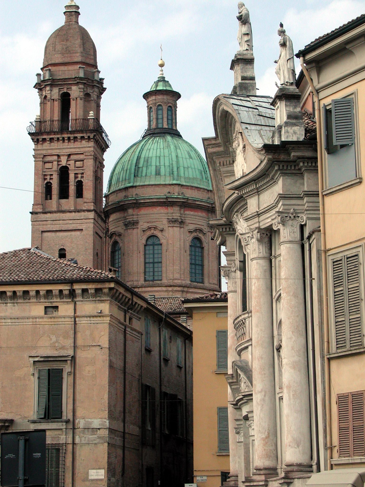 Church of San Giorgio in Reggio Emilia.